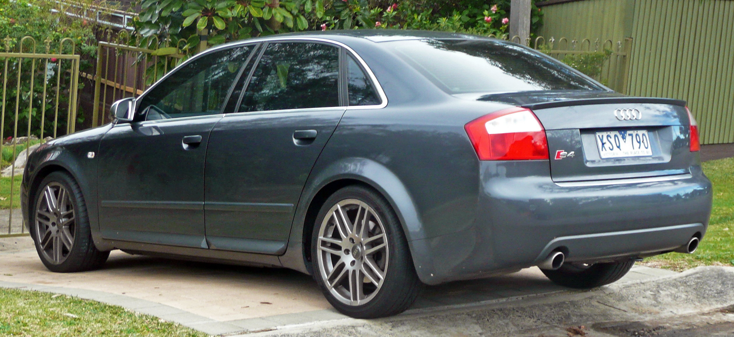 2003–2005 Audi S4 (B6) sedan, with 2006–2008 Audi RS 4 (8EC) quattro 18-inch wheels. Photographed in Cronulla, New South Wales, Australia.